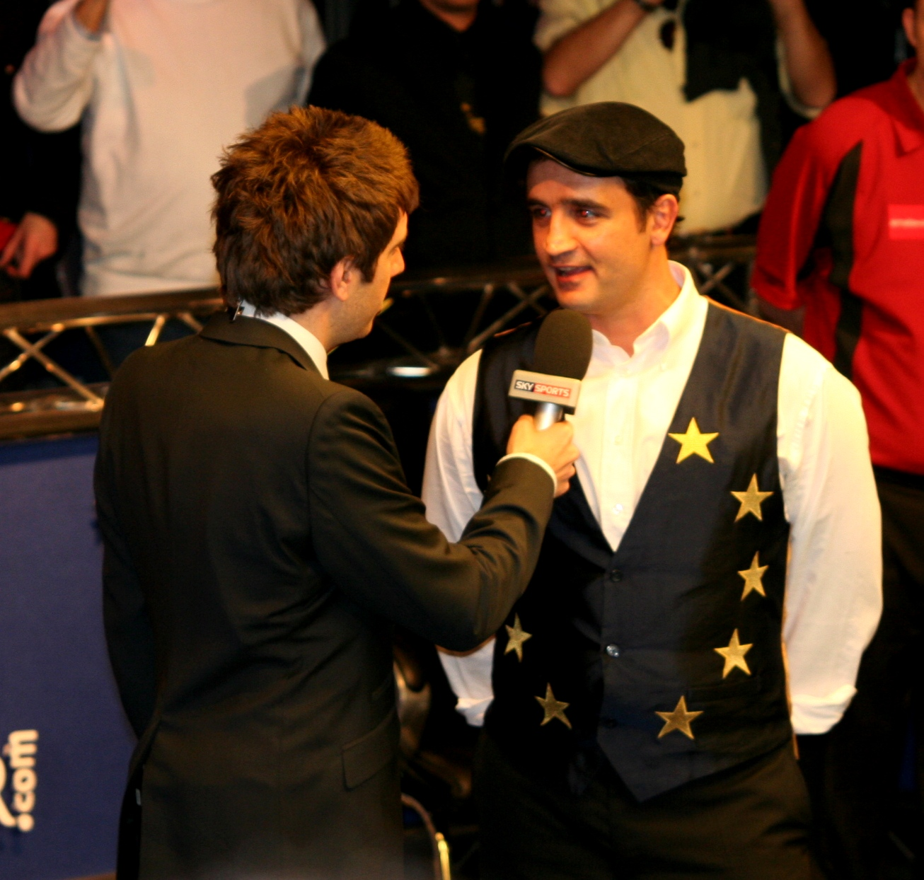 former Dutch pool player and European captain Alex Lely at the Mosconi Cup 2008 in Malta.